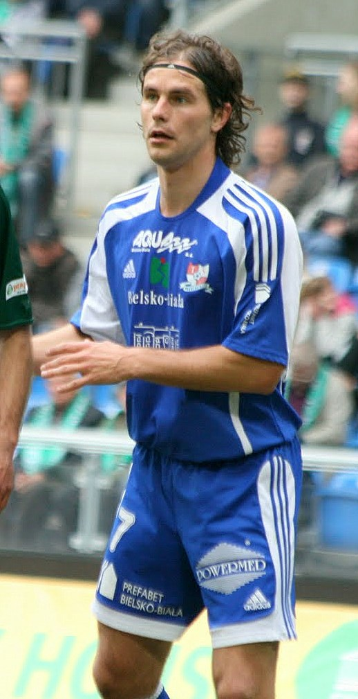 Slovak football player Juraj Dančík